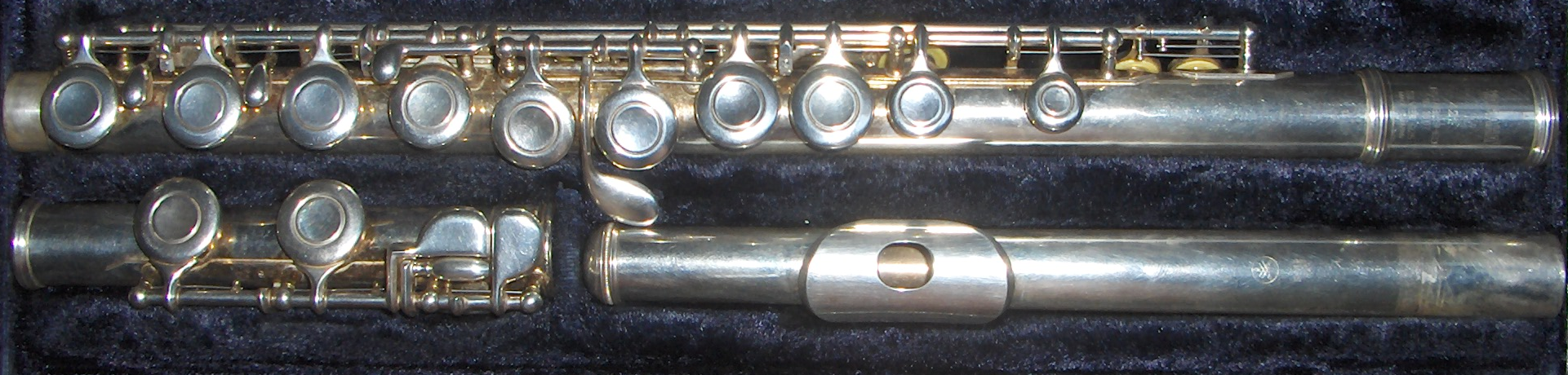 Disassembled flute (Yamaha concert flute)